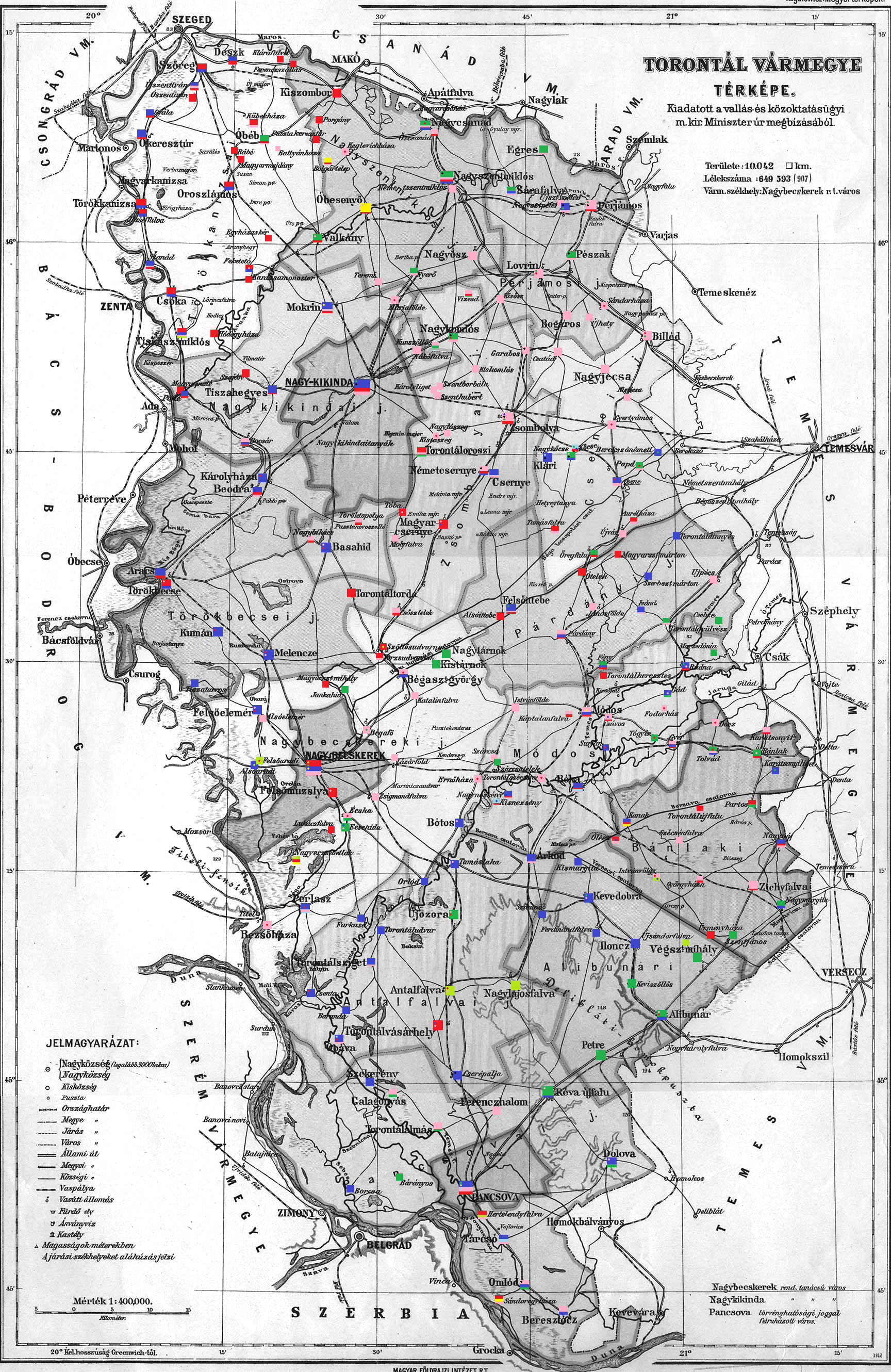 Ethnic map of the county (with data of the 1910 census). Key: pink - Germans; dark blue - Serbs; red - Hungarians; dark green - Romanians; light green - Slovaks; light blue - Croatians, yellow - Bulgarians; black - Roma. Coloured dots in plain rectangles imply the presence of smaller minority populations (generally more than 100 people or 10%). Multicoloured rectangles imply cities and villages with multi-ethnic populations with the order of the stripes following the ethnic composition of the settlement.